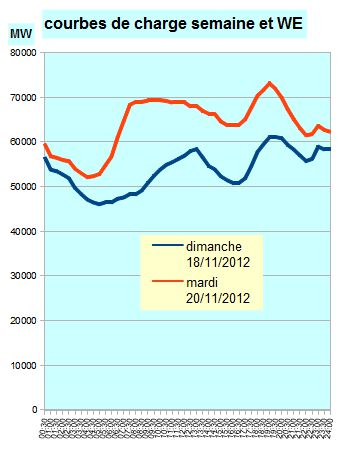 France's load curves on a week day and a Sunday (instantaneous power in MW) data from : RTE (french power grid manager)